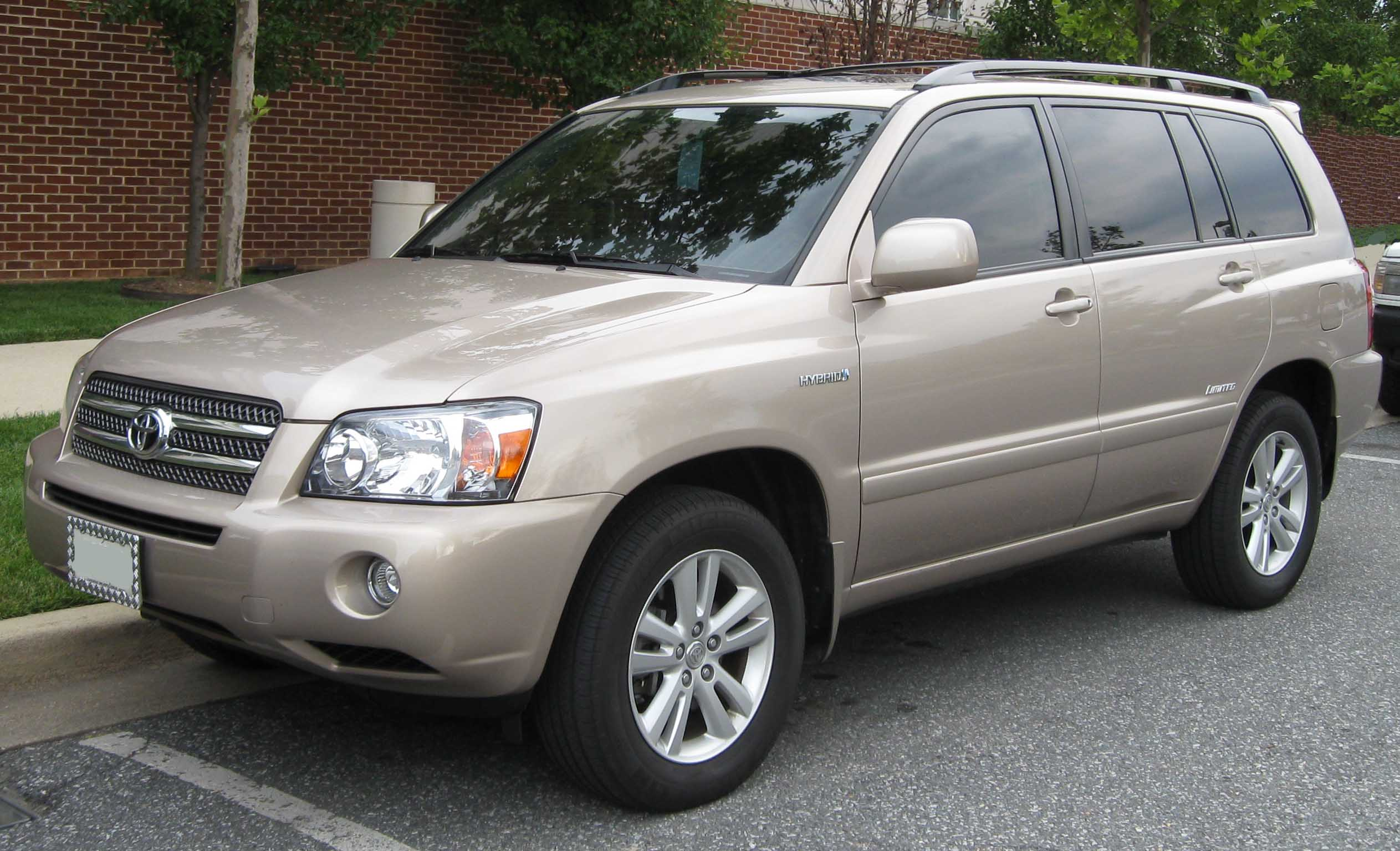 2005-2007 Toyota Highlander Hybrid photographed in College Park, Maryland, USA.